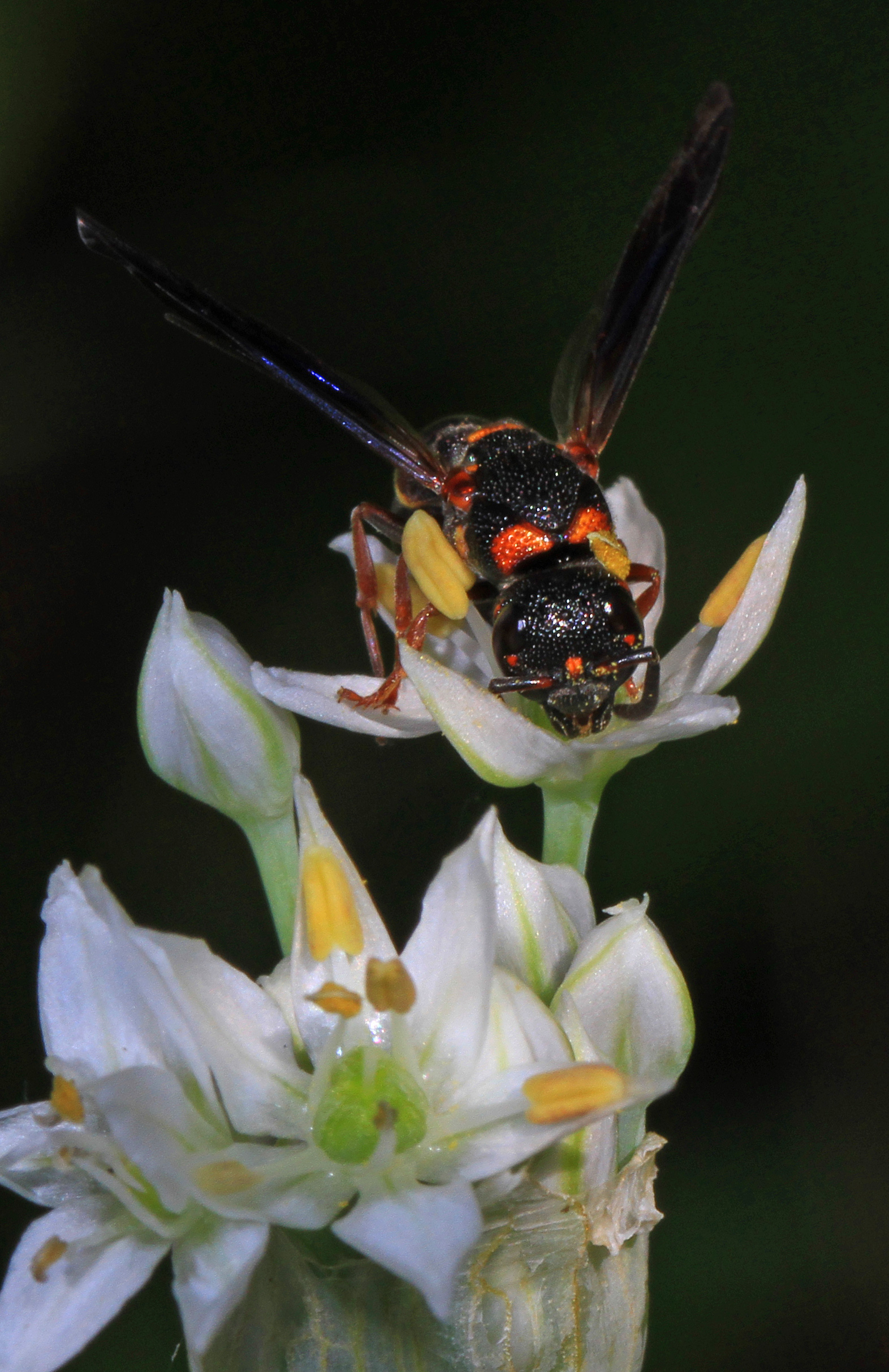 Potter Wasp - Parancistrocerus histrio, Woodbridge, Virginia